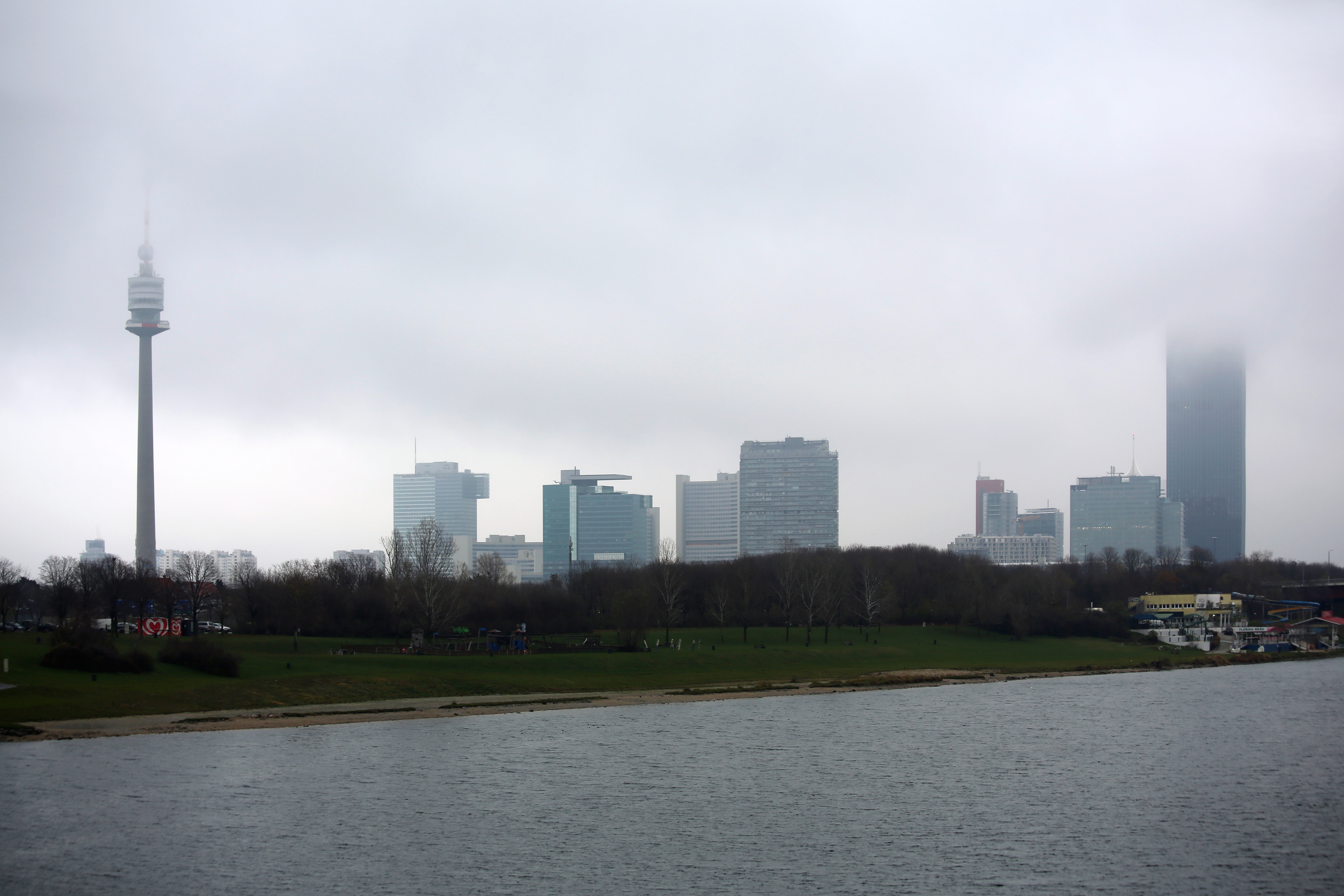 View from Donauinsel across New Danube towards Donau City with DC Tower 1 (height: 220 m) and Donauturm (height: 252 m) in low Stratus clouds; Vienna, Austria.